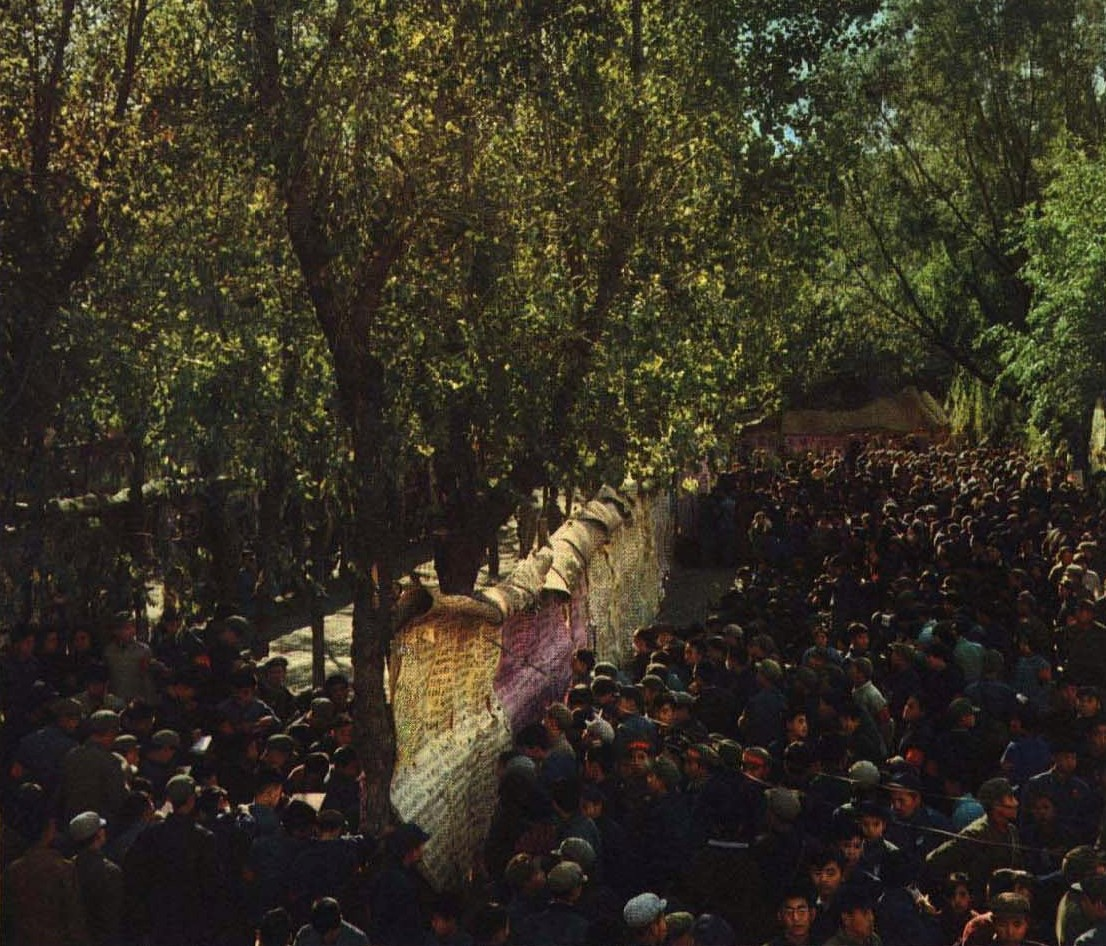 1967-02 1967年大鸣大放大字报